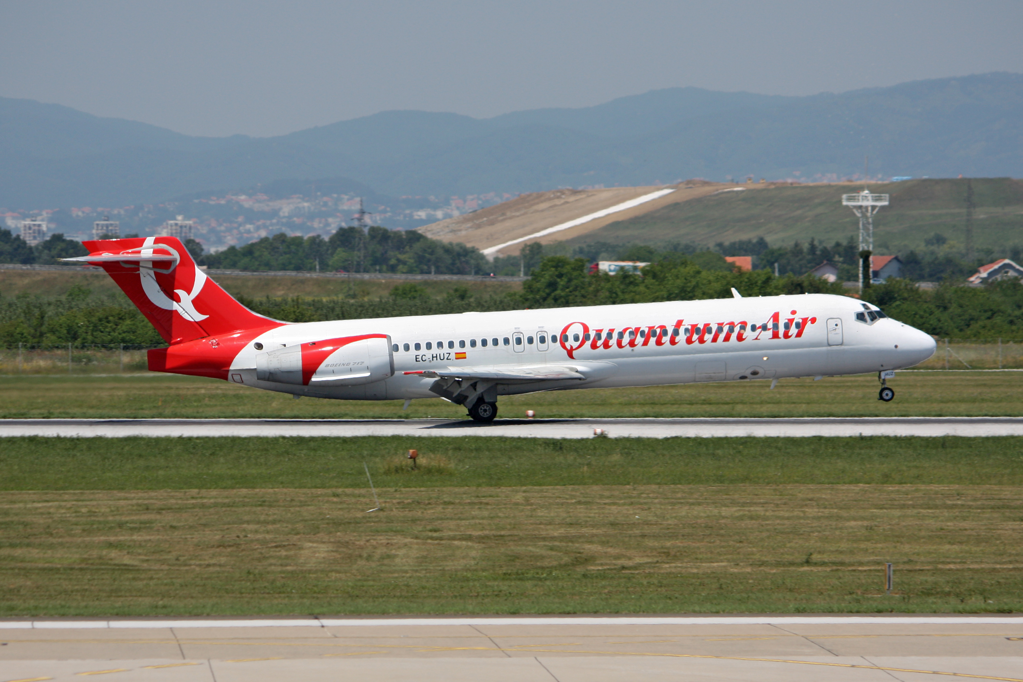 Quantum Air on Zagreb airport.